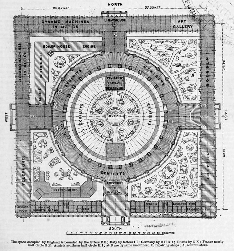 Vienna Electrical Exhibition Plan 1883